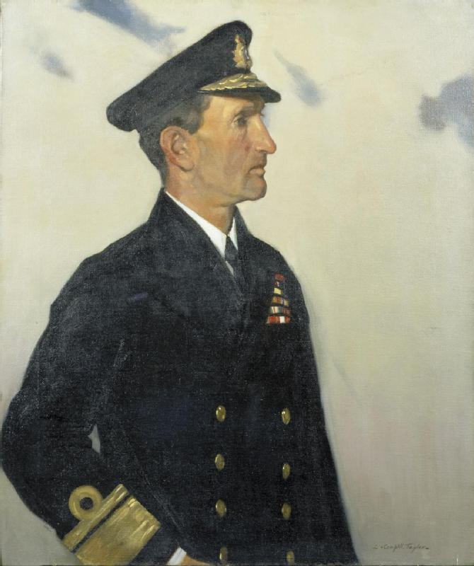 Rear-admiral Sir Walter Henry Cowan, Kcb, Mvo, Dso - 1920 image: A half-length portrait of Cowan in full uniform. He stands in profile, looking out towards the right of the canvas.